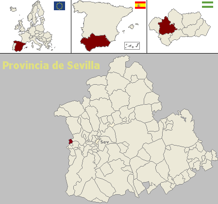 Castilleja del Campo